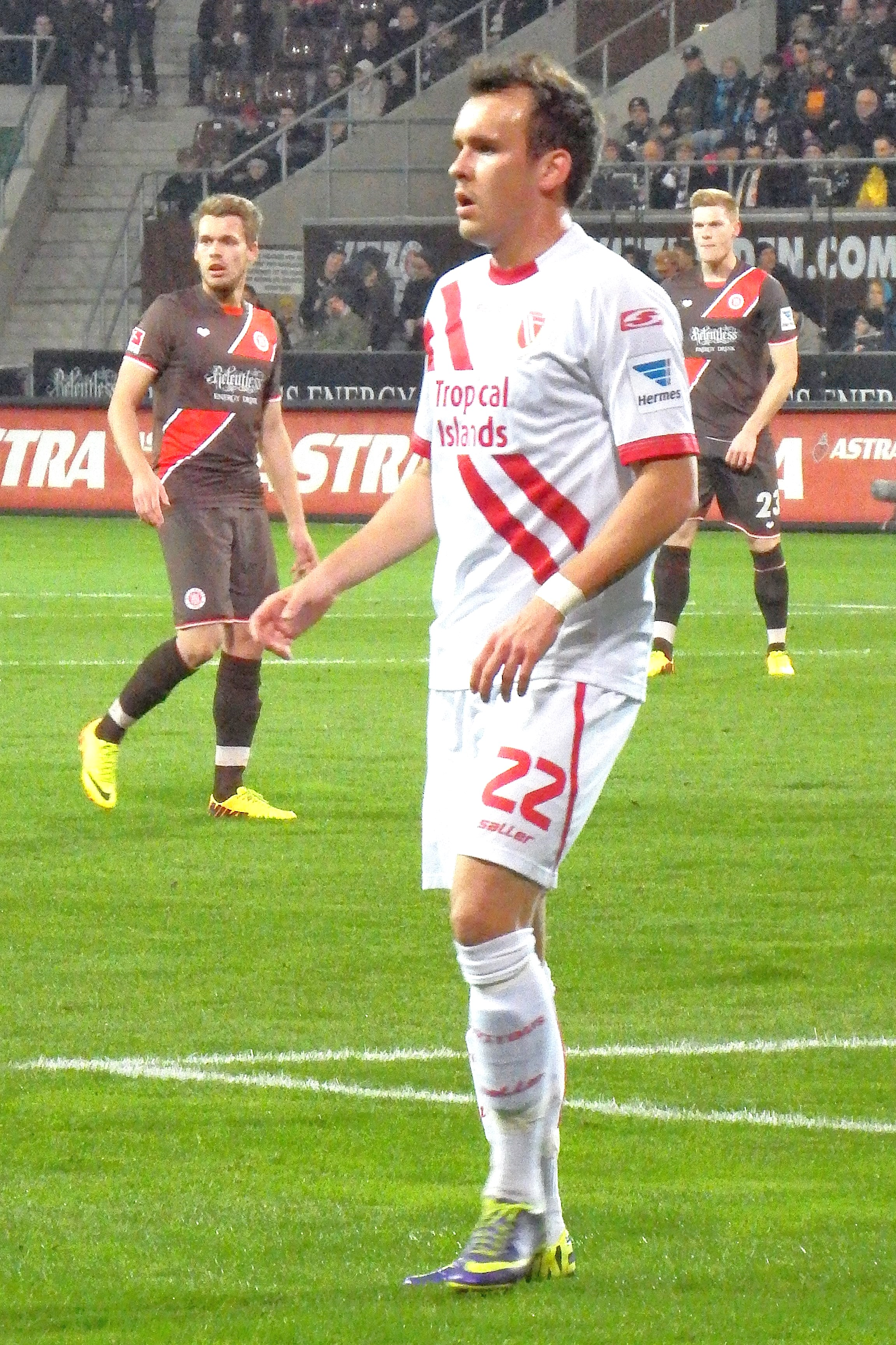 André Fomitschow as Player of Energie Cottbus